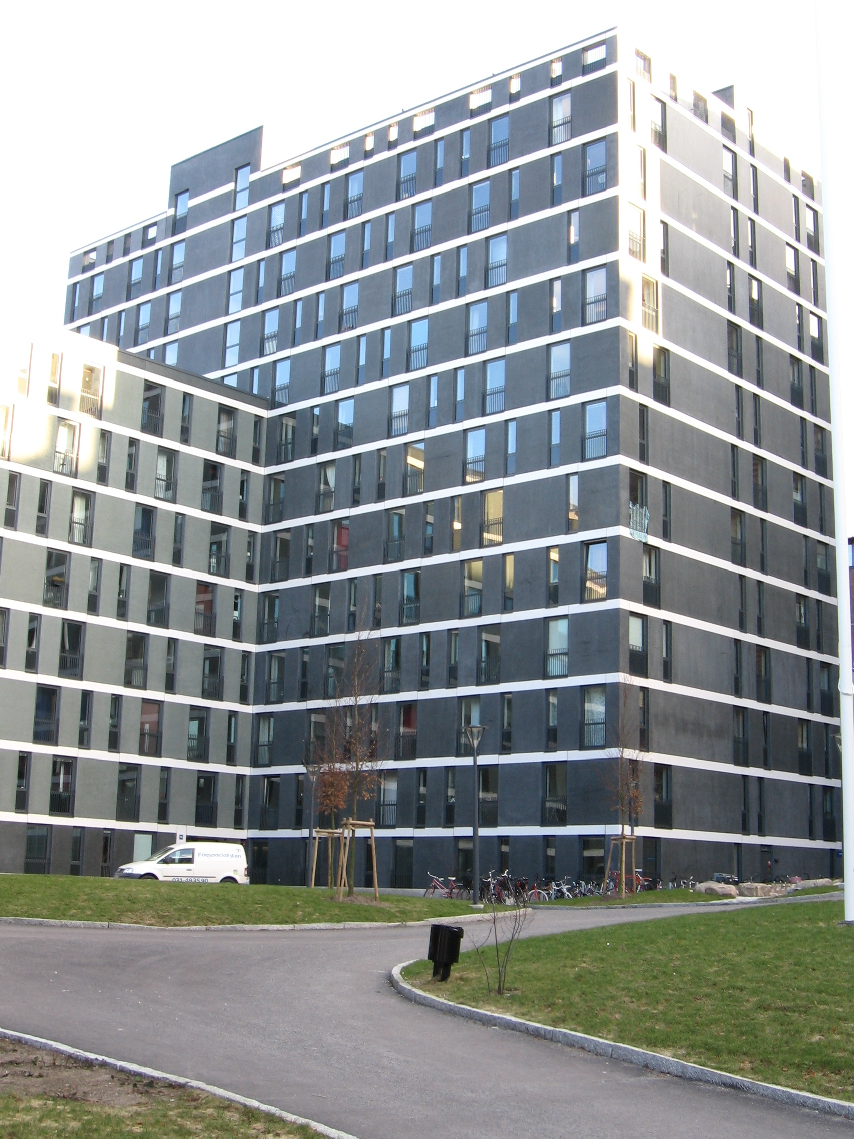 Chabo student housing, apartment building, cement, Kemivägen 7B, Gothenburg.